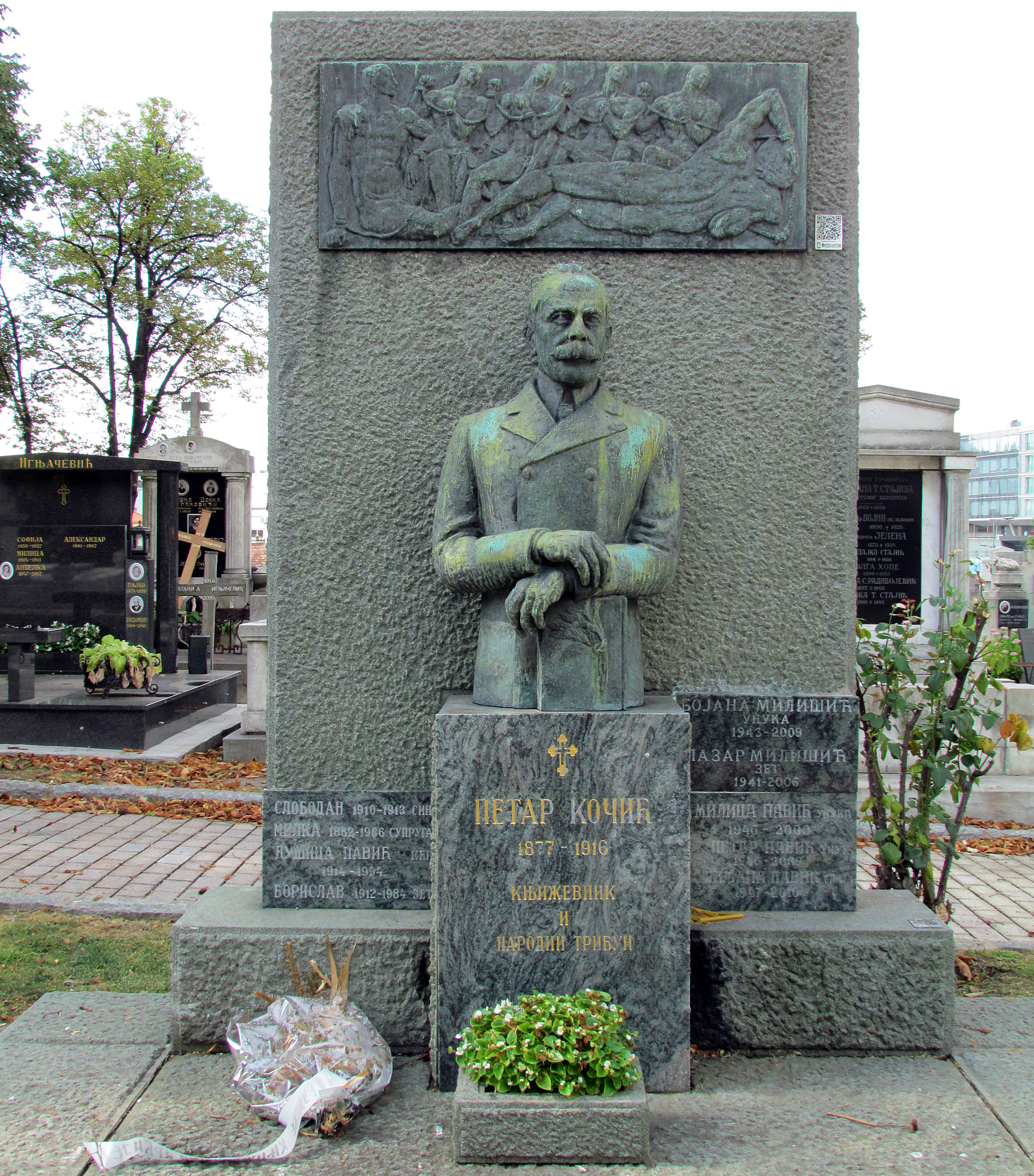 Grave of Petar Kocic a Bosnian Serb writer at Belgrade's New Cemetery.